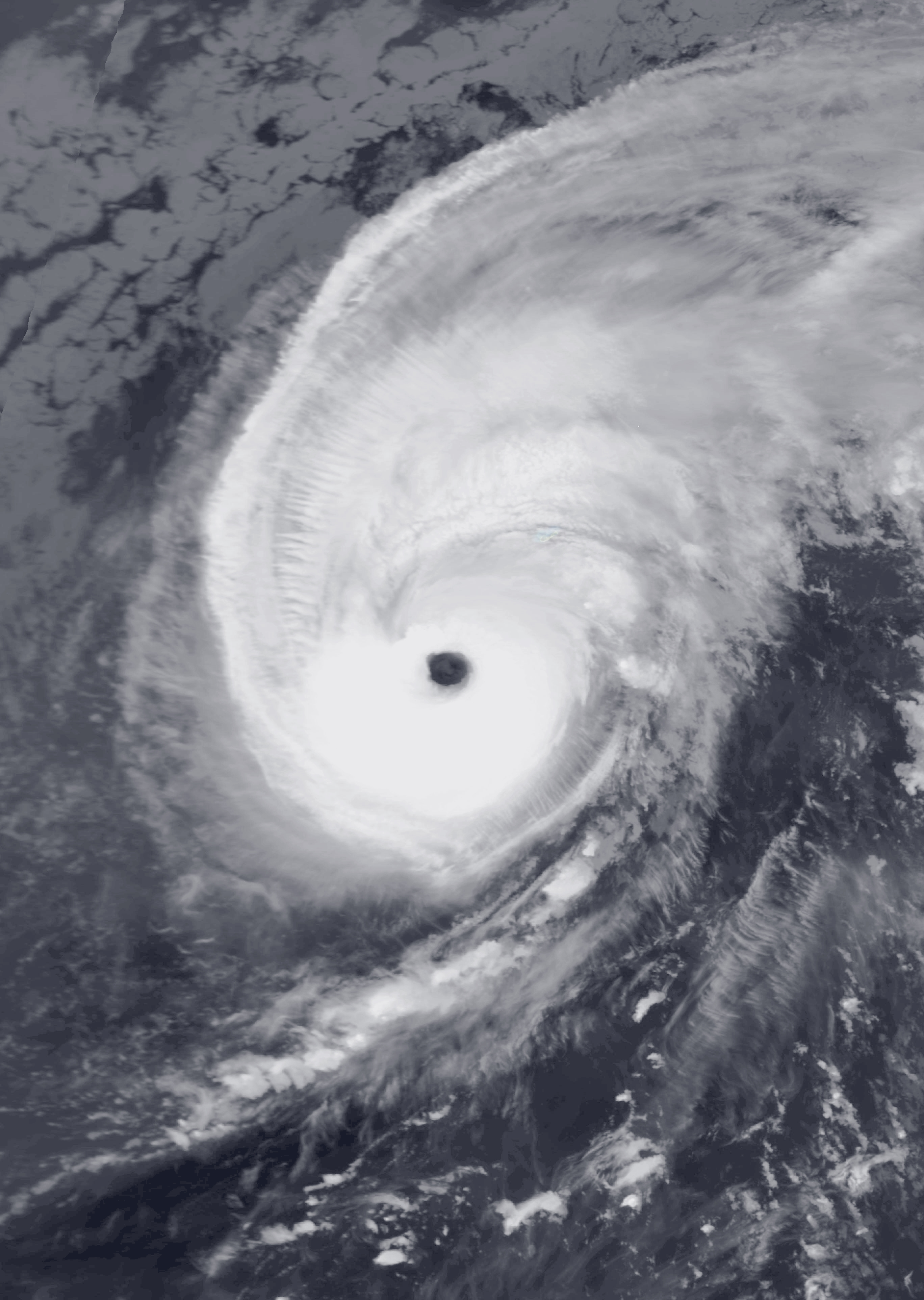 Hurricane Nicole at peak intensity near Bermuda on October 13, 2016.